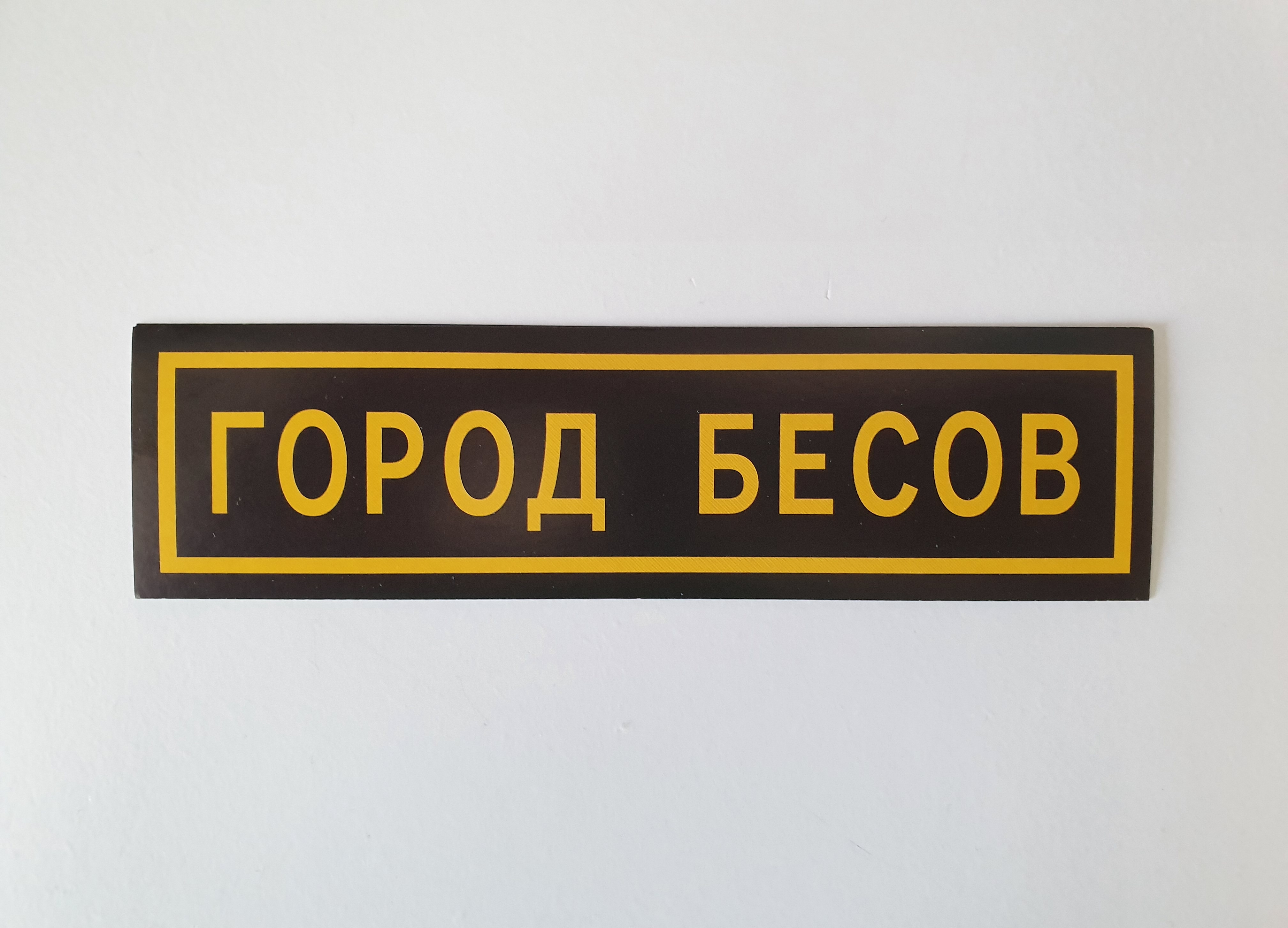 One of the symbols of Yekaterinburg - the sticker «City of Demons» («Gorod Besov» on Russian language), which appeared as a result of protests for the preservation of the square on October Square and the reaction of the famous journalist Vladimir Solovyov to them.